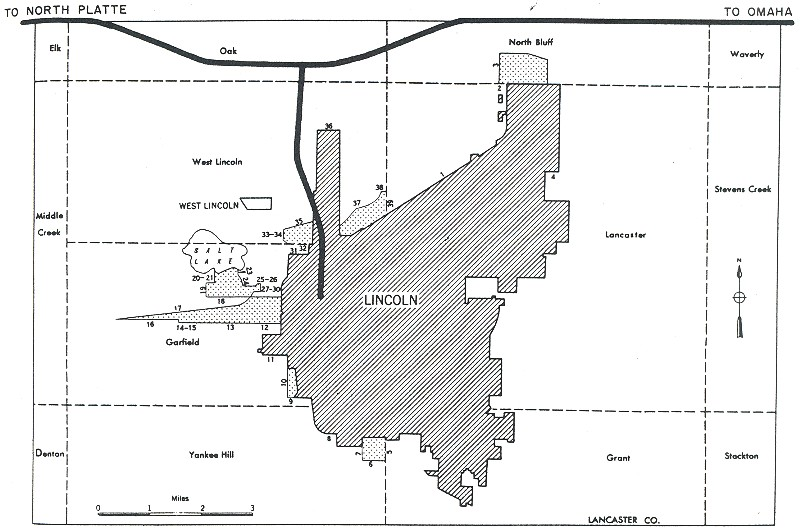 Interstates in today's terms I-80 I-180